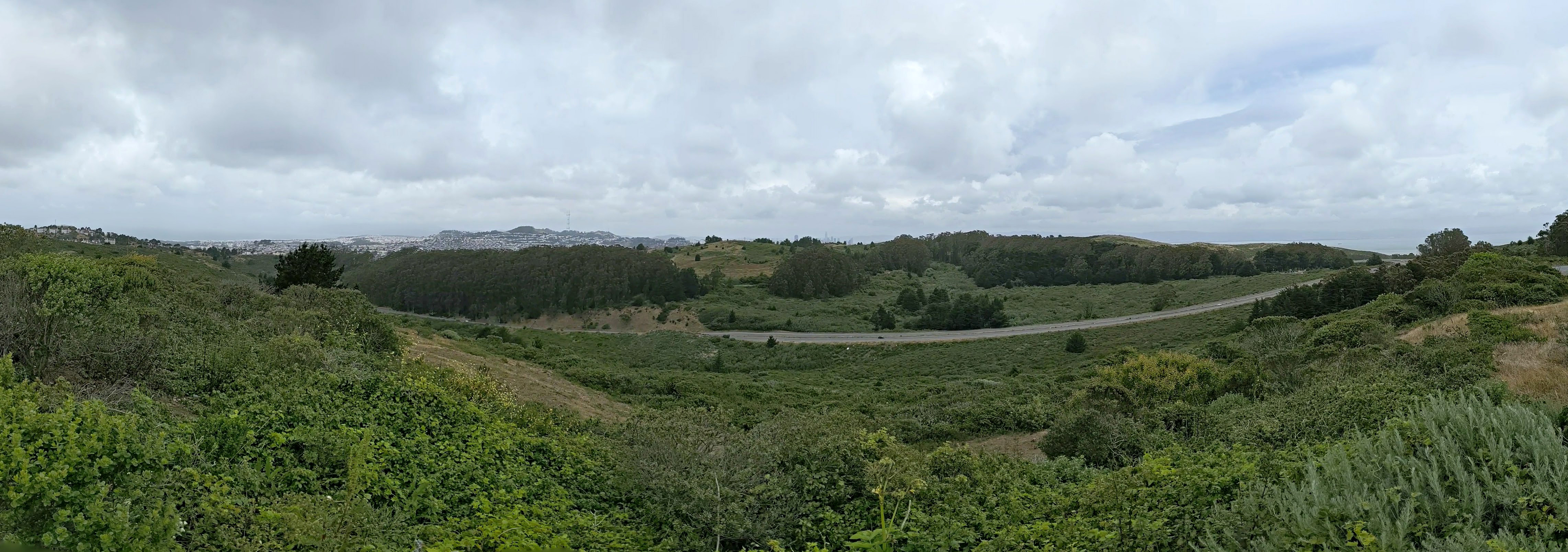 View across Guadalupe Canyon Parkway from the south on San Bruno Mountain, with San Francisco in background